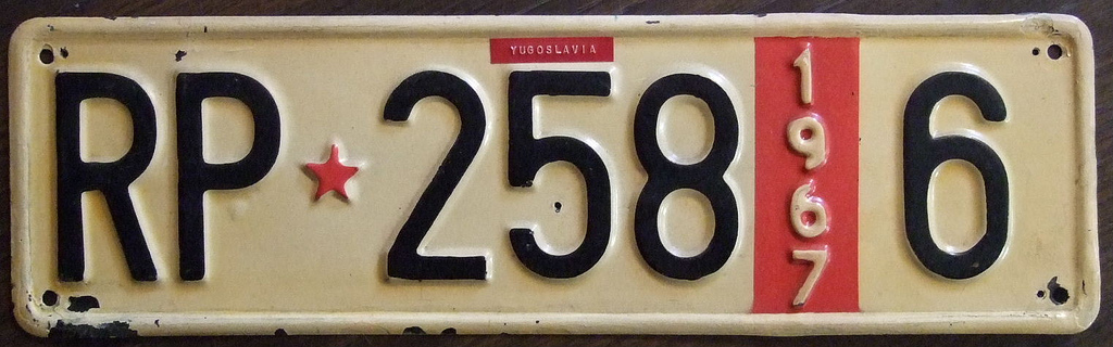 My own work (i made this picture ofrom my ex yugoslav car Zastava-101)